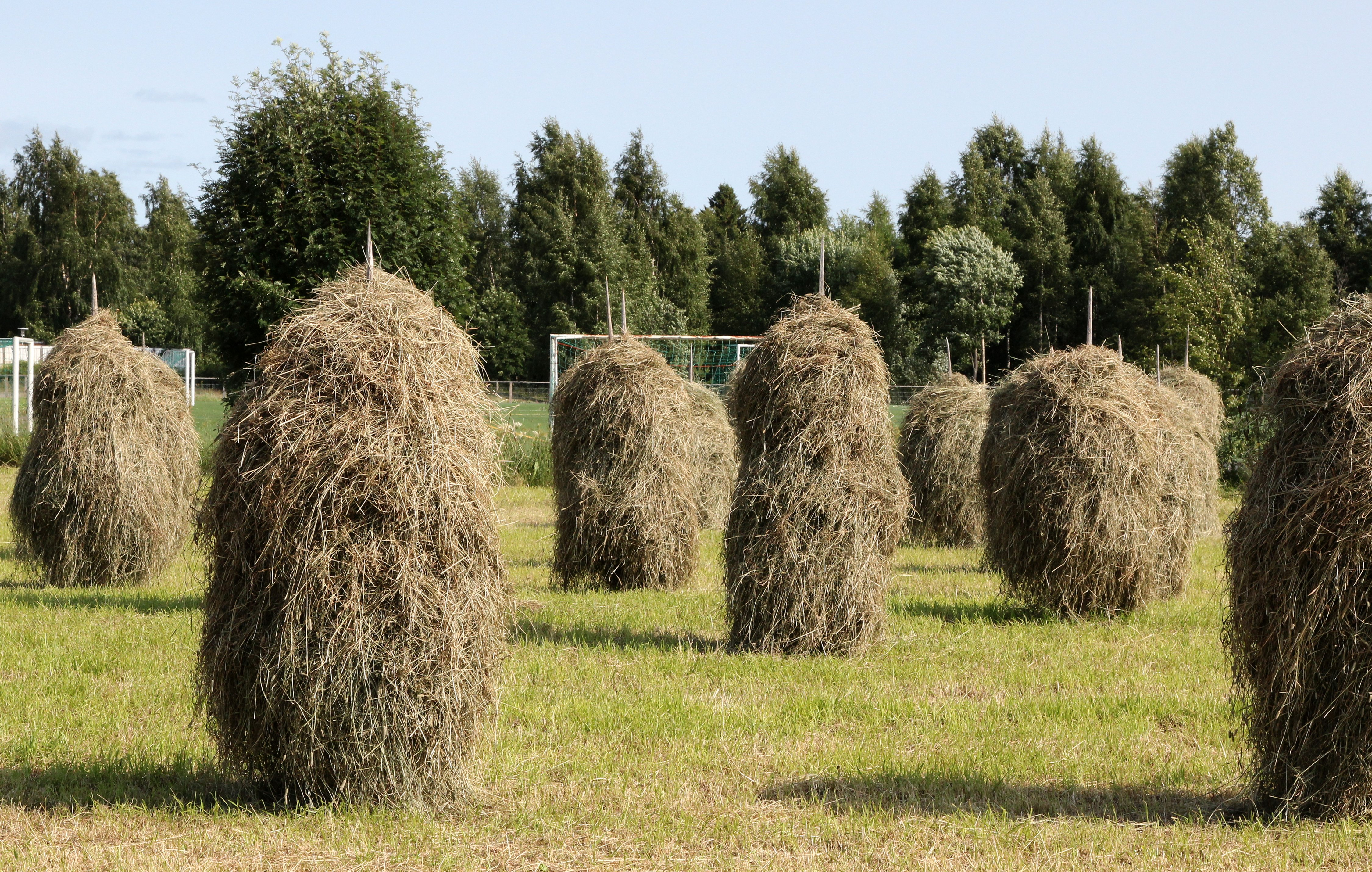 Traditional haystacks in Kello district of Oulu, Finland.